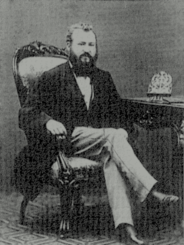 The young Pietro Blaserna, physicist and future vice-president of the Italian Senate